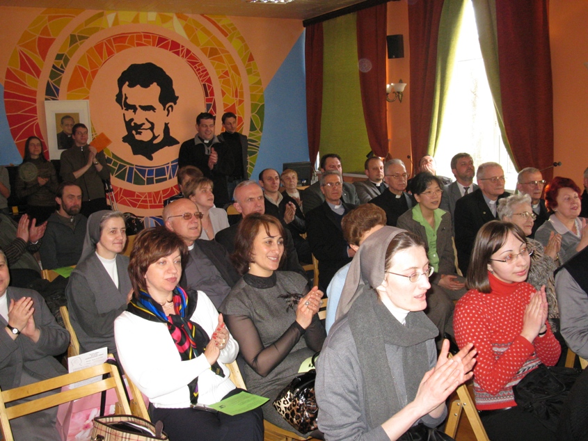 Holiday in Salesian asylum in Moscow.